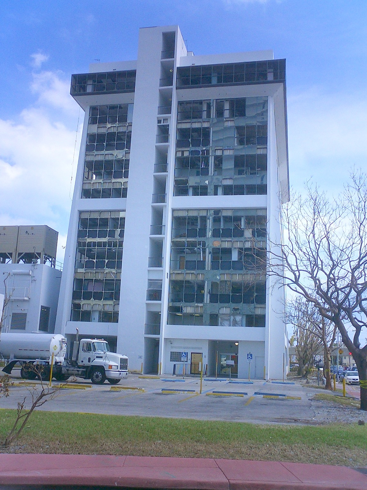 Nearly every window on the west side of South Beach Community Hospital in Miami Beach was blown out. Hurricane Wilma, 2005